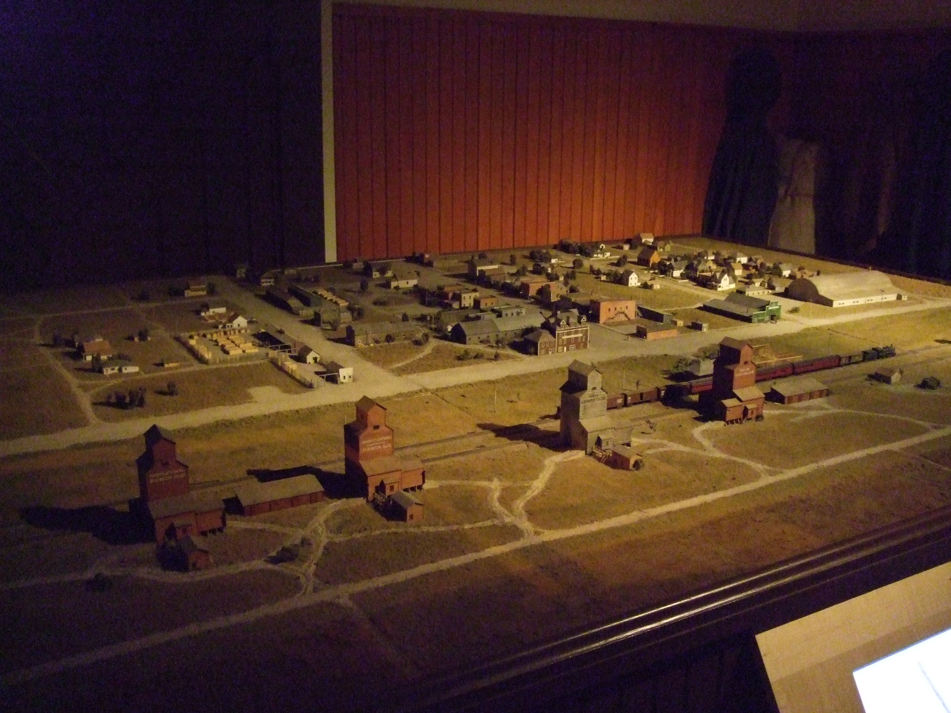 This brilliant diorama depicts the emergence and growth of a typical railway tow. Note the grain storage silos on one side of the train and the rest of the town on the other side of the track. A train is visible just behind the rightmost silo at the extreme right. Wonder if the modern unscrupulous real estate sharks will allow so much open space near the railway! (Ottawa, Canada, Dec. 2012)